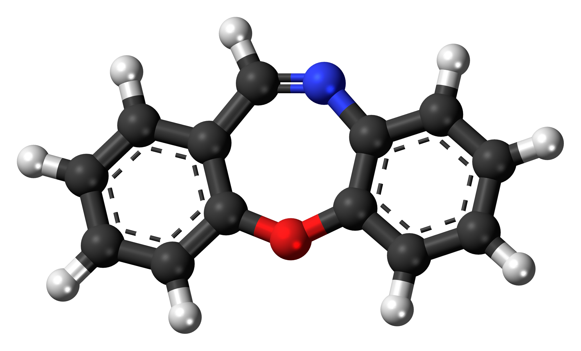 Ball-and-stick model of the dibenzoxazepine molecule, also known as CR gas, a riot control agent. Color code: Carbon, C: black Hydrogen, H: white Oxygen, O: red Nitrogen, N: blue